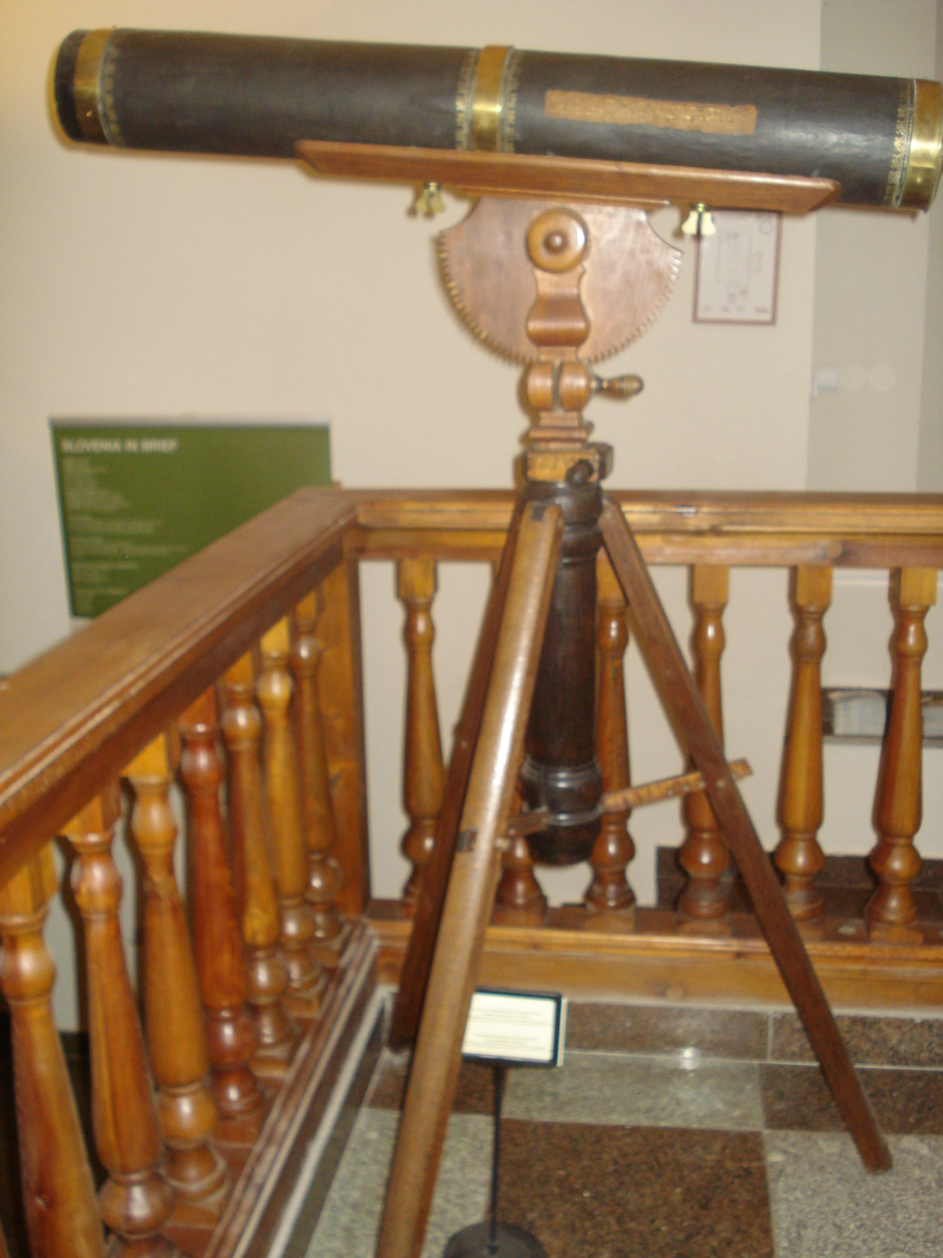 4 foot long telescope manufactured in Germany. In response to pressure from Prof. Tomasz Zebrowski (1714-1758) to provide the Vilnius University Astronomy Department with equipment and telescopes, Mikolaj Radziwill (1702-1762), Grand Duke of Lithuania and Governor of Vilnius, donated. The telescope was covered in Moroccan leather, with an inscription engraved in gold letters on the side: Dono celsissimi principis Michaelis Radziwill palat: Viln. supr: ducis exerc: M.D.L. cessit Acad: Viln: S. J. ad usum astronomicos. White hall of the Vilnius university libraryLietuvių: 12 cm (5 colių) Gregorio sistemos teleskopas. Pirmasis Vilniaus astronomijos observatorijos teleskopas, kurį padovanojo Lietuvos didysis kunigaikštis Mykolas Radvila (1702-1762). Vilniaus universiteto bibliotekos baltoji salė